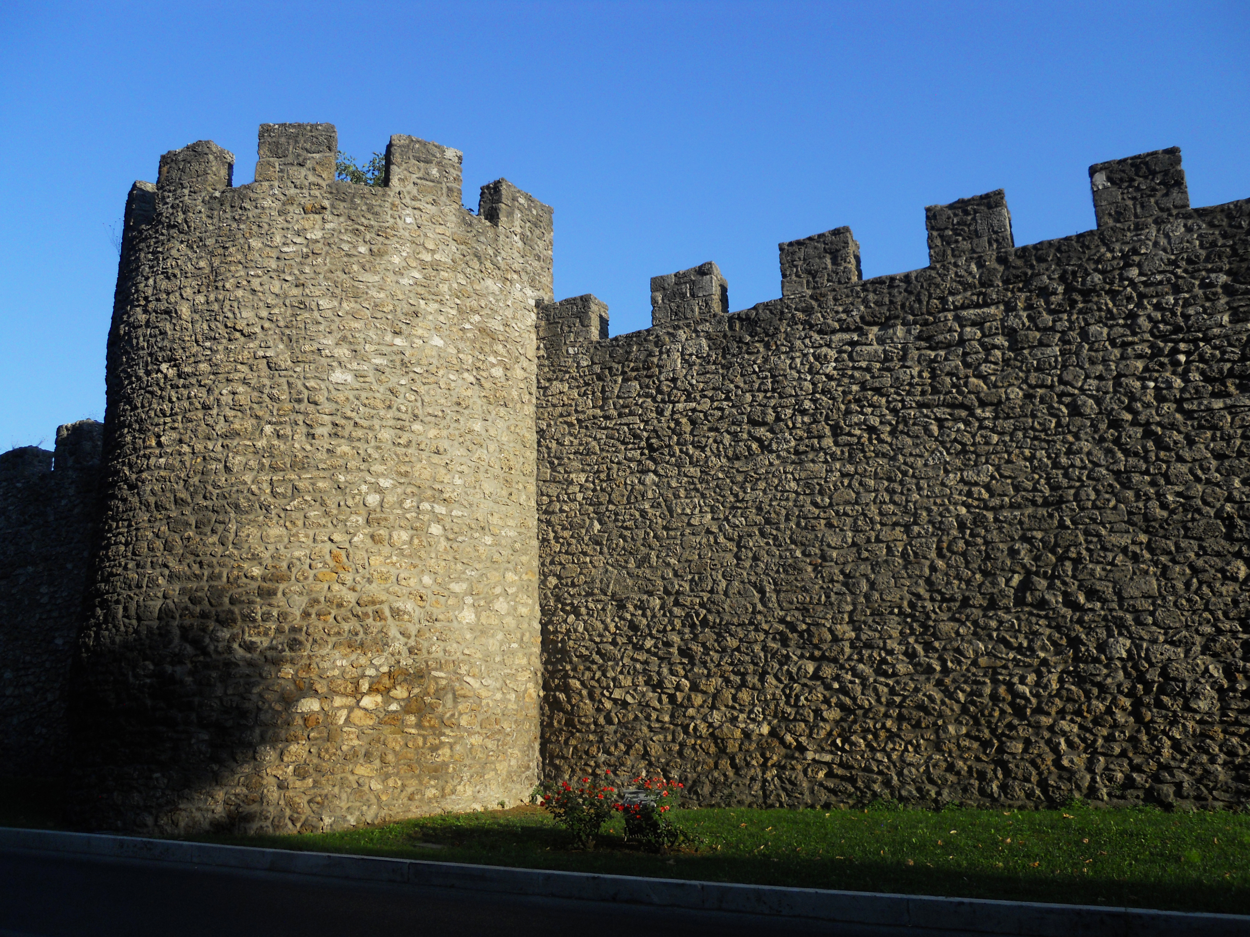 Walls of Rieti, Italy - part between porta Conca and porta d'Arci